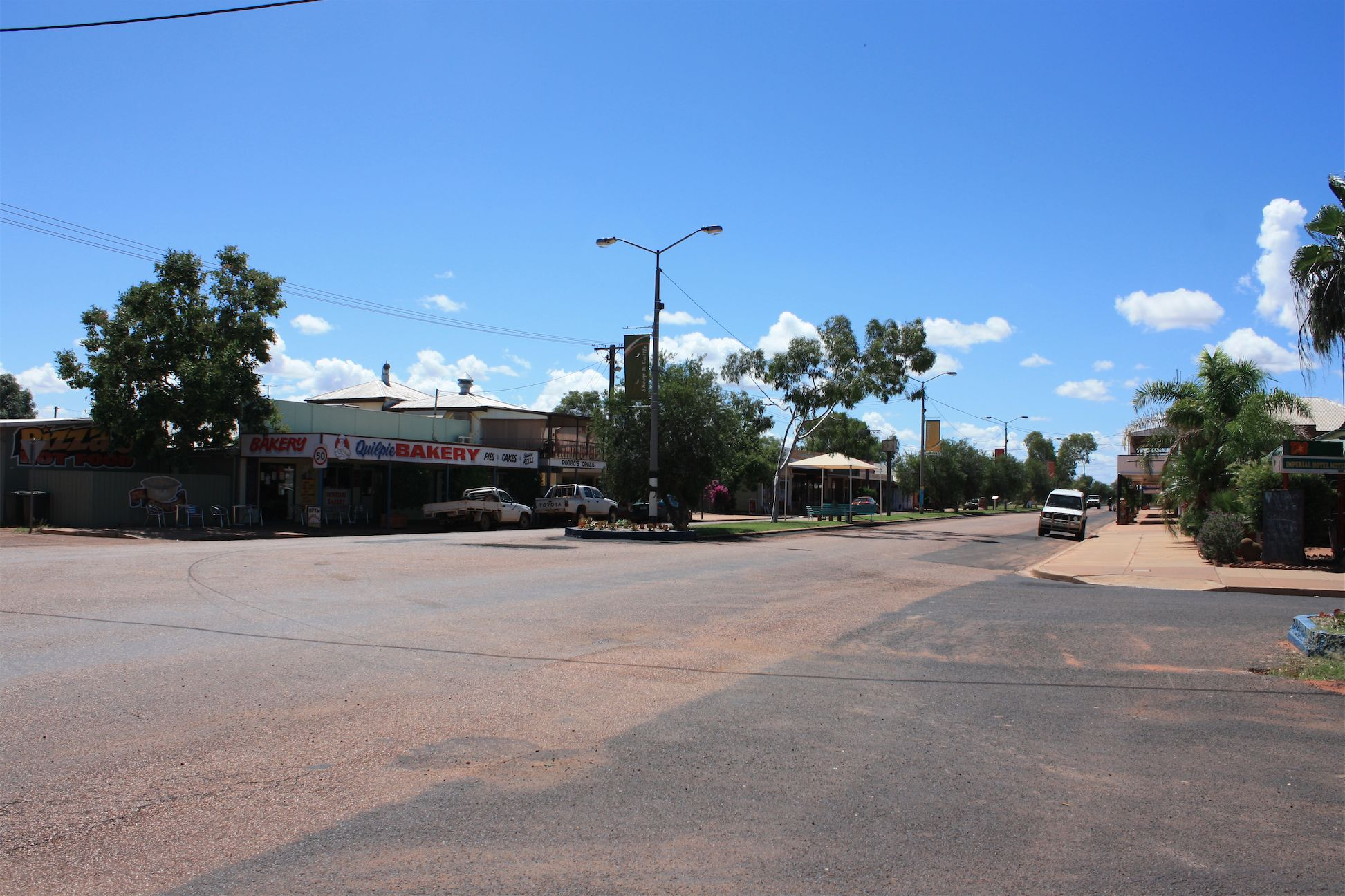 Facing East on Brolga Street - the main street of Quilpie, Queensland. [The Diamantina Developmental Road where it passes through Quilpie.]